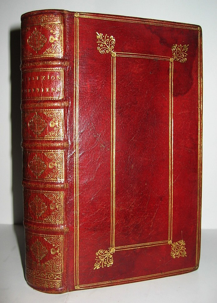 Early binding